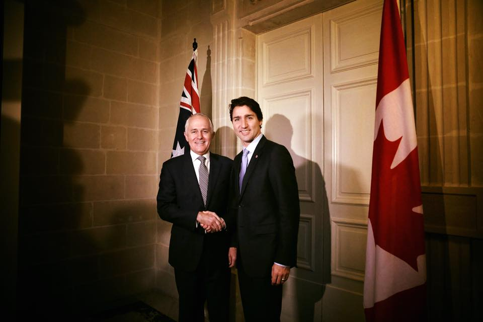 Australian Prime Minister Malcolm Turnbull meets with Canadian Prime Minister Justin Trudeau at the Commonwealth Heads of Government Meeting in Malta in November 2015.